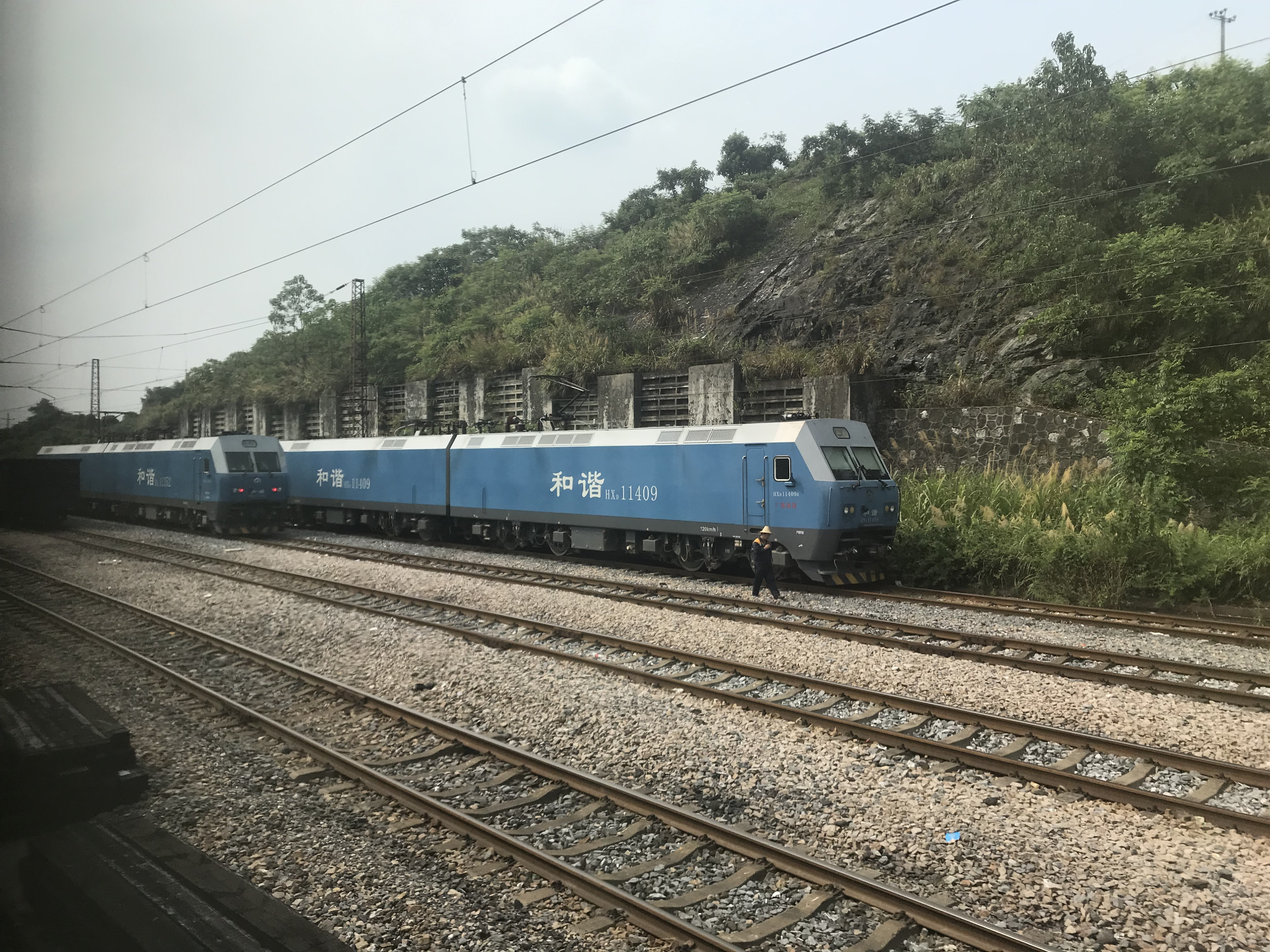 201908 HXD1-1409 at Jinzhushan Station